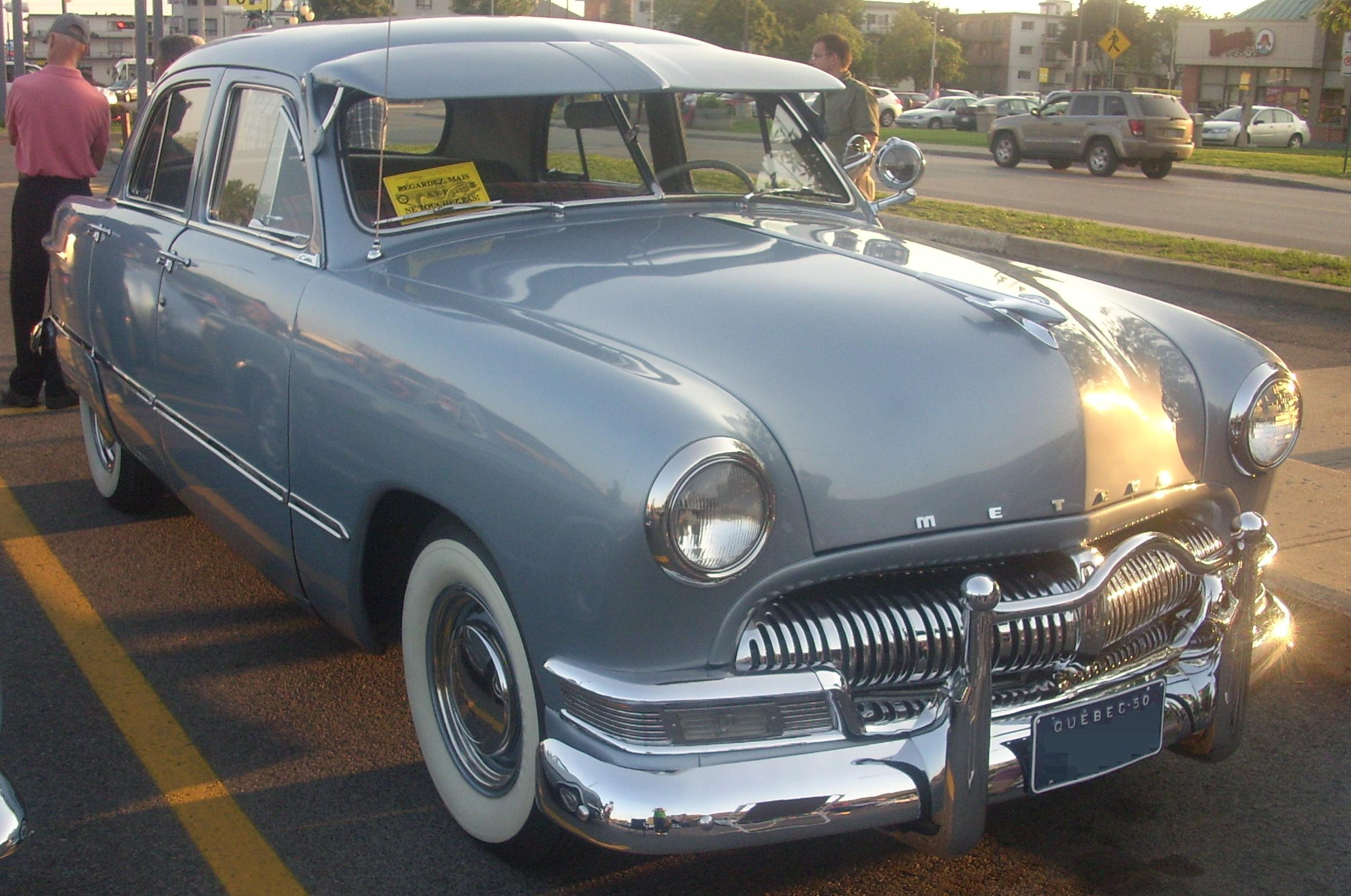 1950 Meteor photographed in Montreal, Quebec, Canada at A&W St-Léonard.